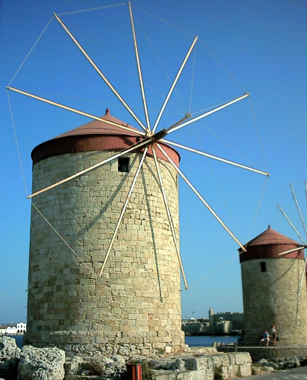 Rhodes harbour, Greece.